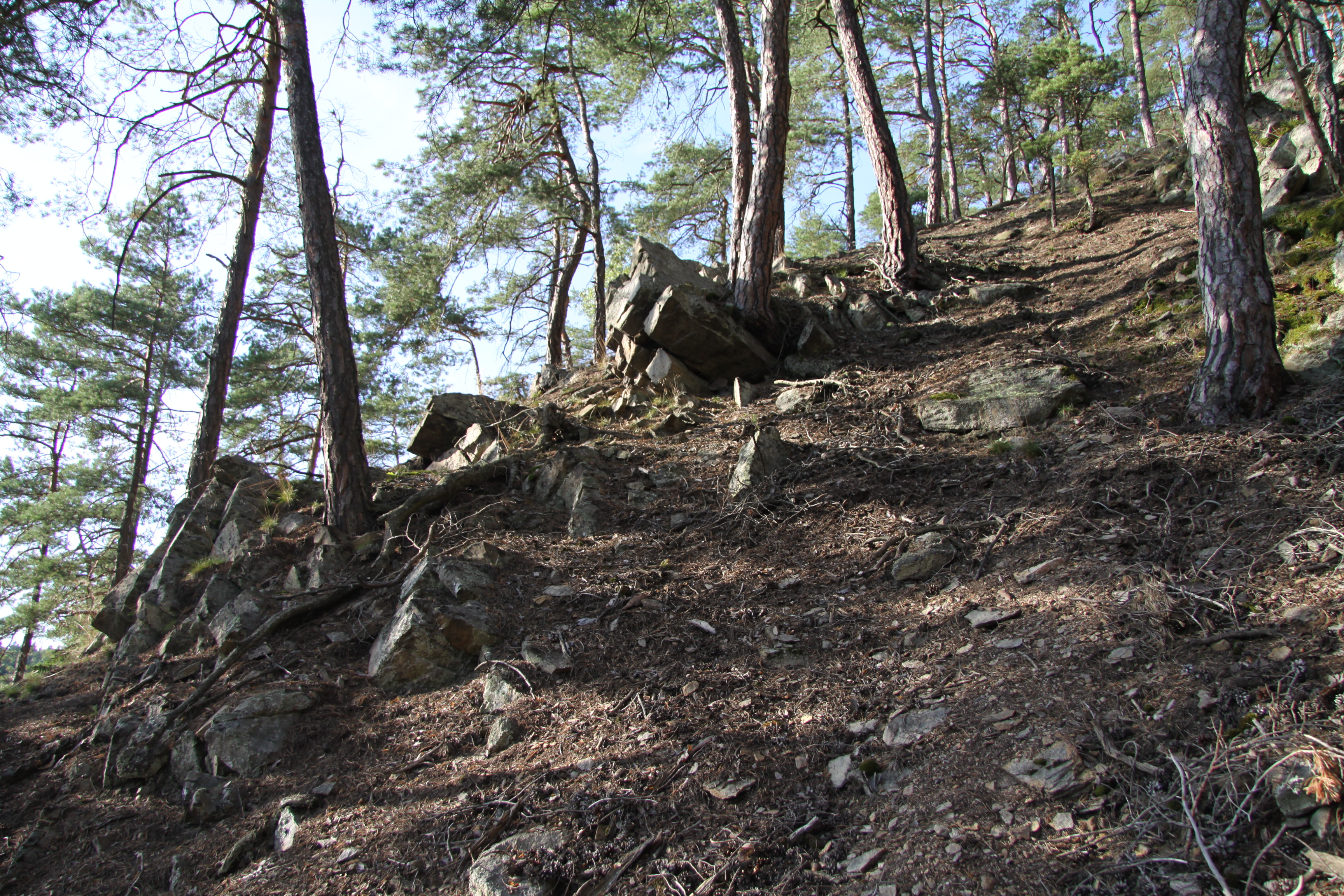 Natural reservation called "Výří skály u Oslova" near Tukleky village on the bank of Otava River, Písek District, Czech republic.